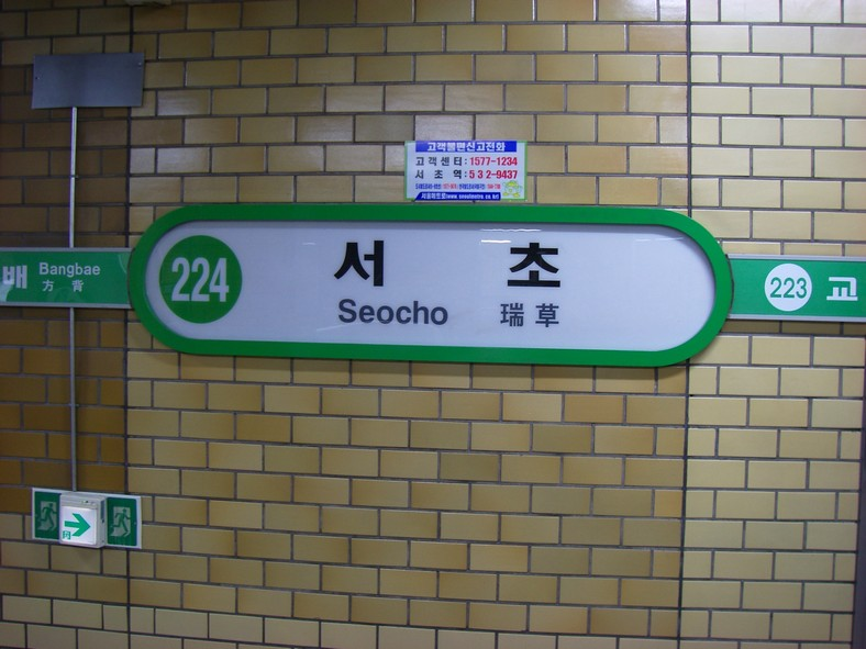 Seocho Station